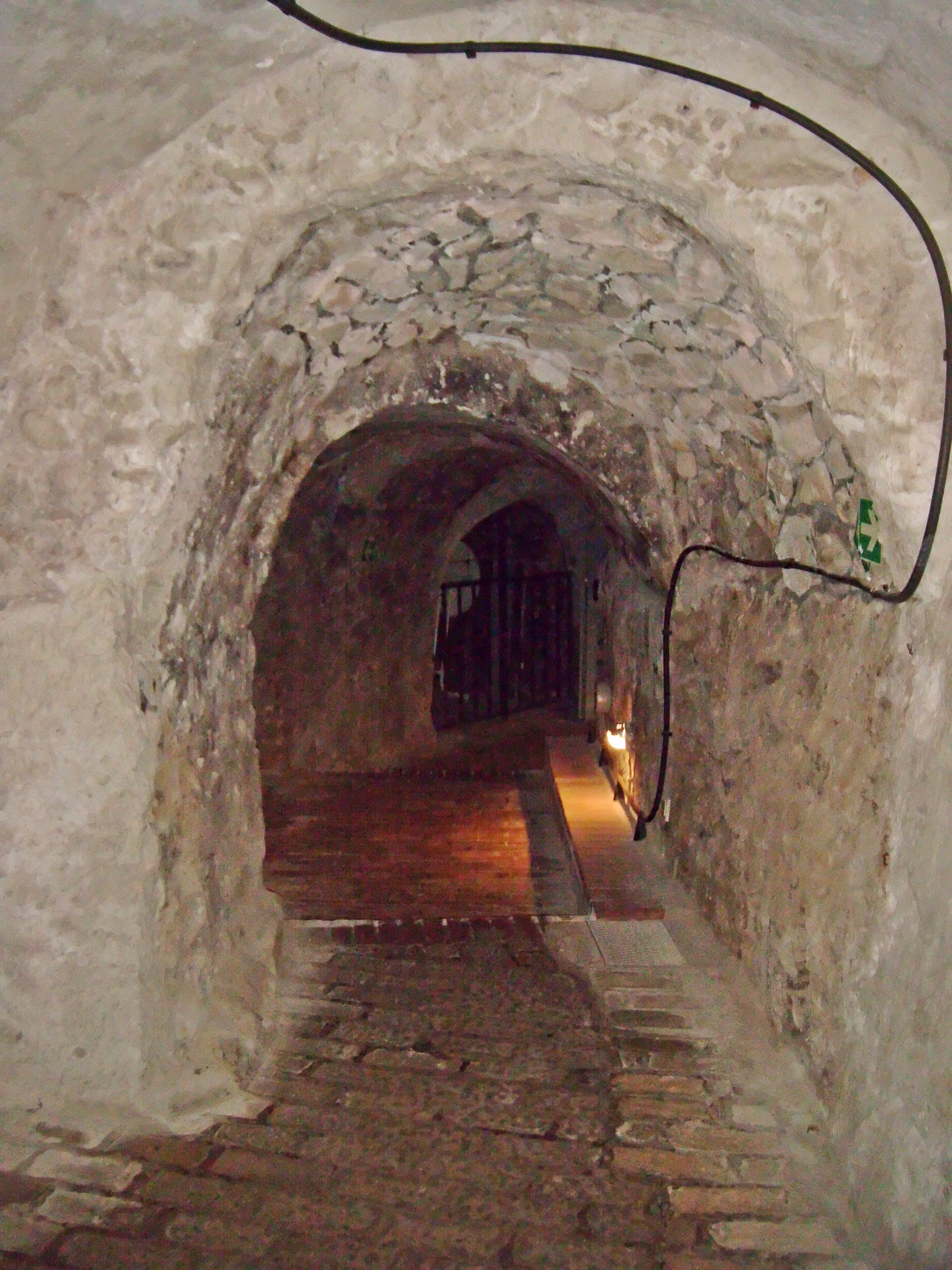 Oppenheimer Kellerlabyrinth